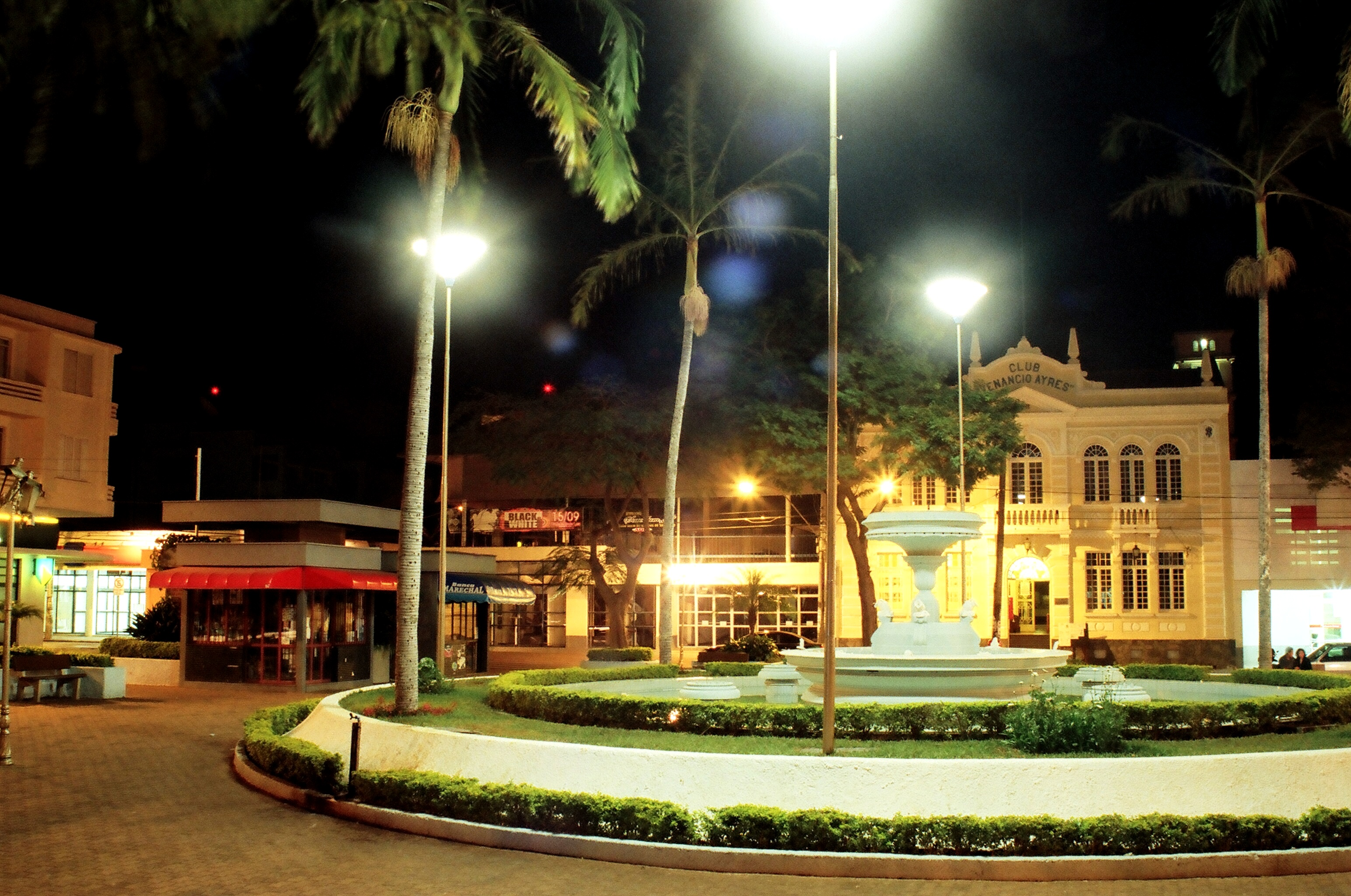 Largo dos Amores square at night, with club Venâncio Ayres on the background.